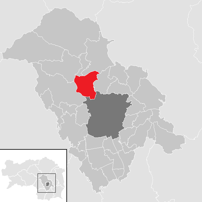 District Graz-Umgebung, Styria